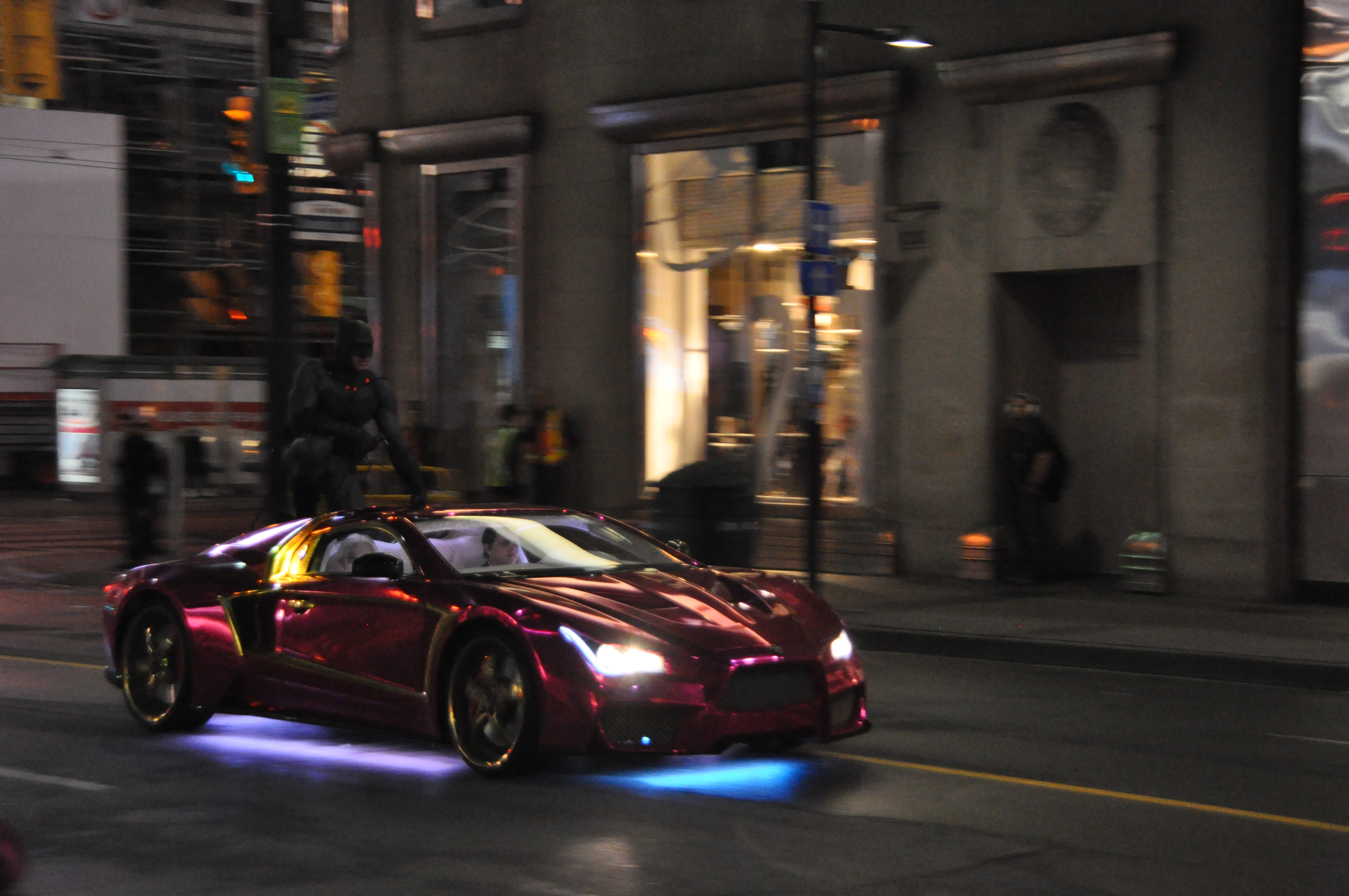 Suicide Squad filming in Toronto.